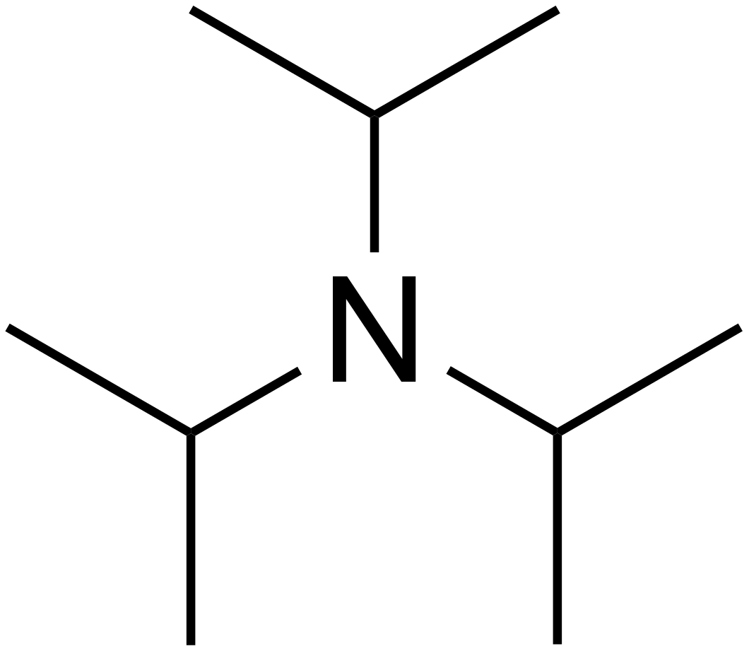 chemical structure of triisopropylamine